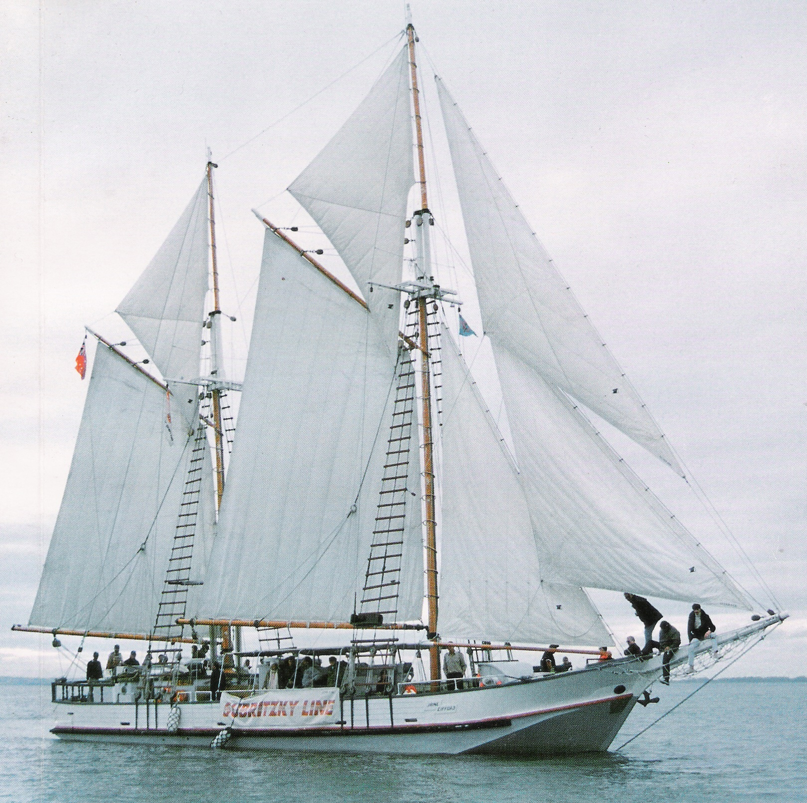 Photo of the Jane Gifford from the Subritzky Collection. You are welcome to use this image in any publication.